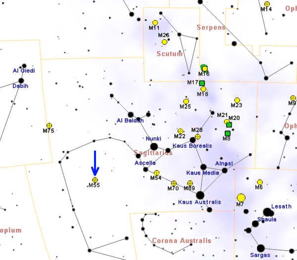 Map of M55